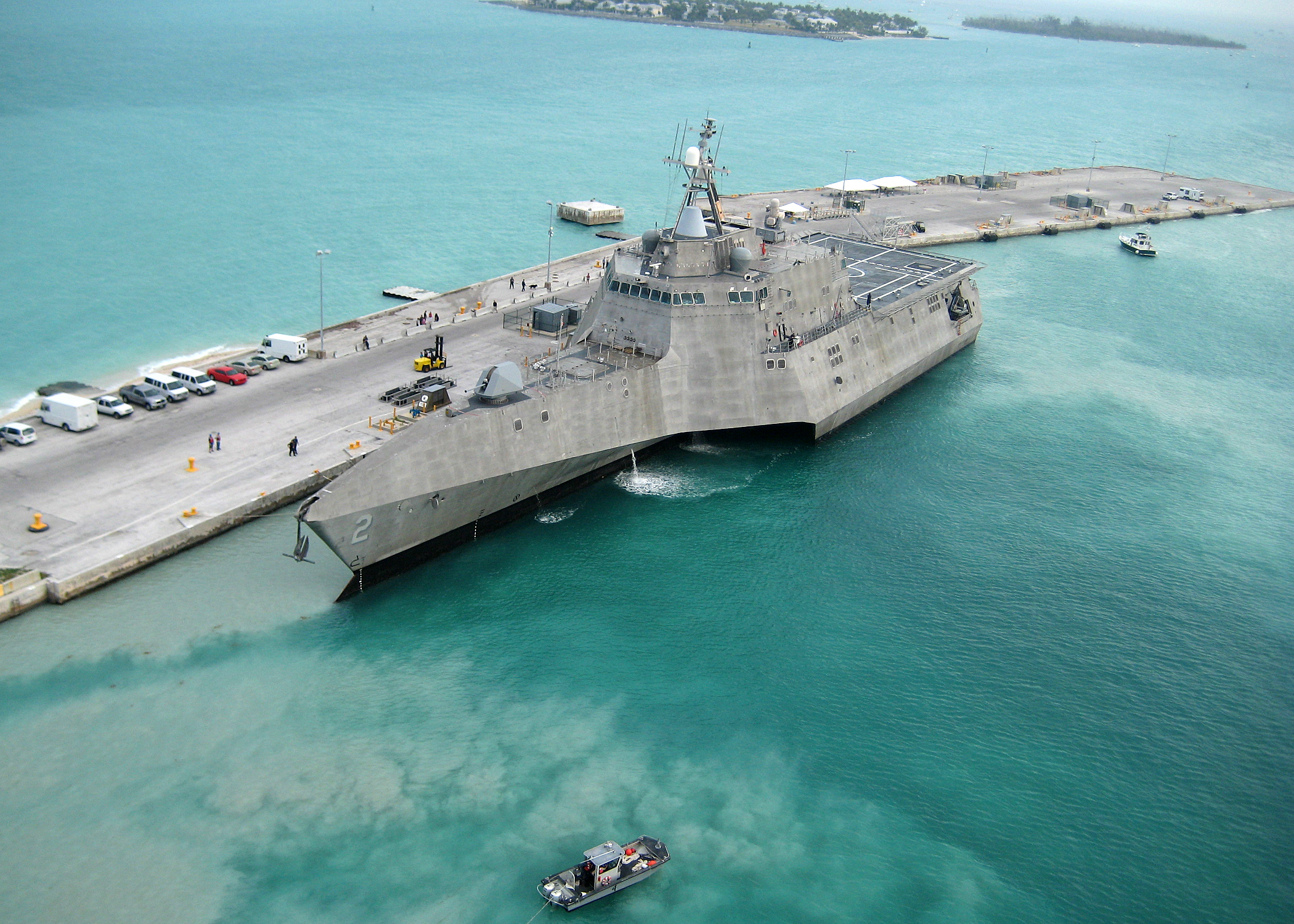 The U.S. Navy littoral combat ship USS Independence (LCS-2) arrives at Mole Pier at Naval Air Station Key West, Florida (USA), on 29 March 2010. Independence was on the way to Norfolk, Virginia (USA), for commencement of initial testing and evaluation of the aluminum vessel before sailing to its homeport in San Diego, California (USA).